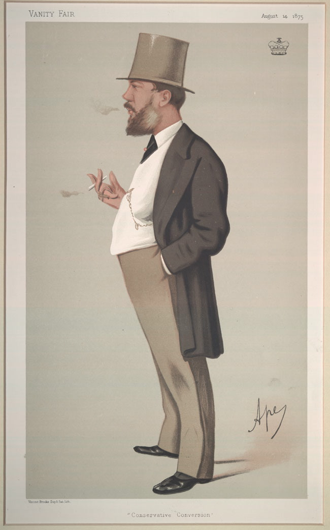 Statesmen No.211: Caricature of Lord Wharncliffe. Caption reads: "Conservative Conversion"